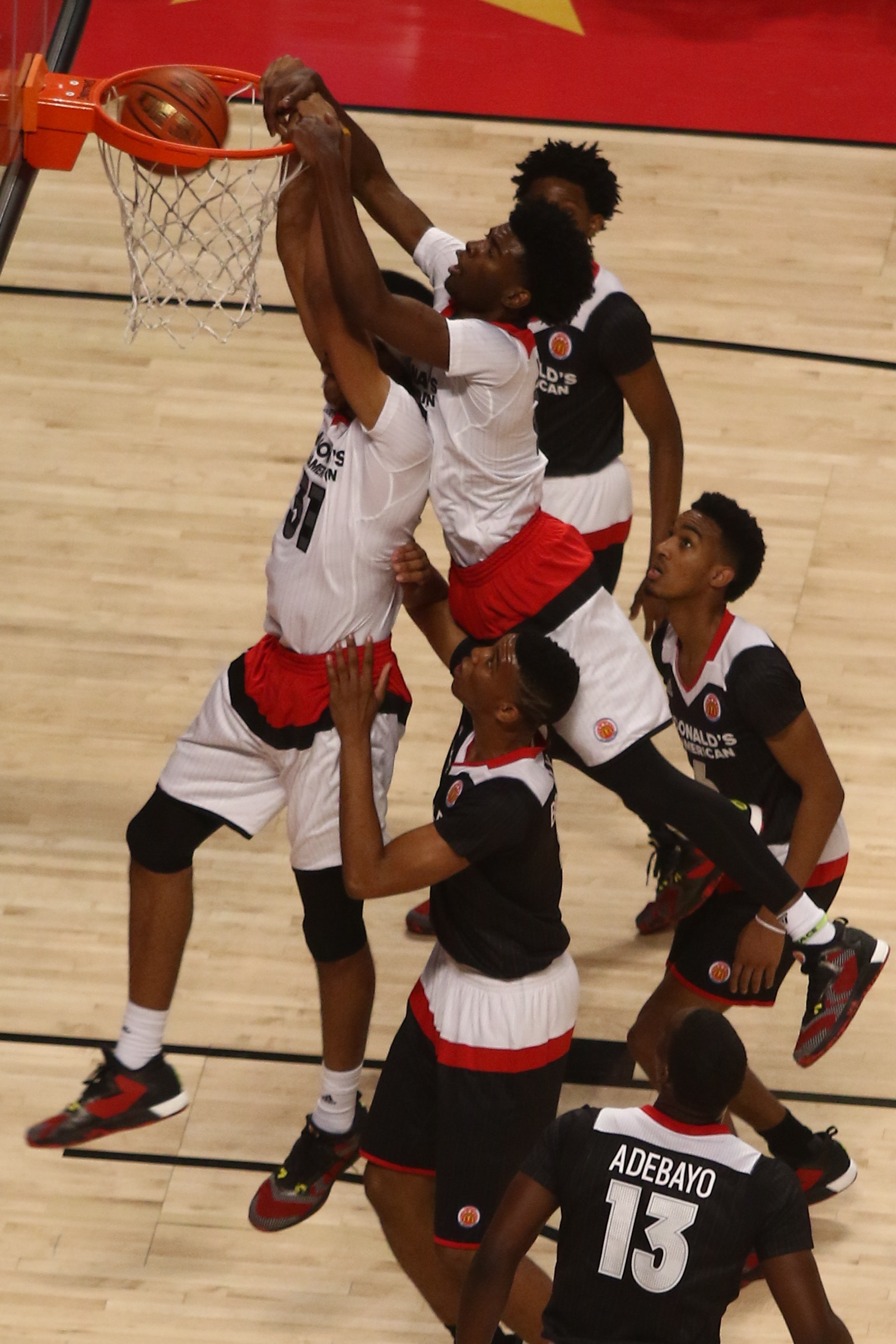 Josh Jackson and Jarrett Allen (#31) crash the offensive boards in front of Terrance Ferguson (#6) and Tony Bradley Jr. (#4) at the w:2016 McDonald's All-American Boys Game